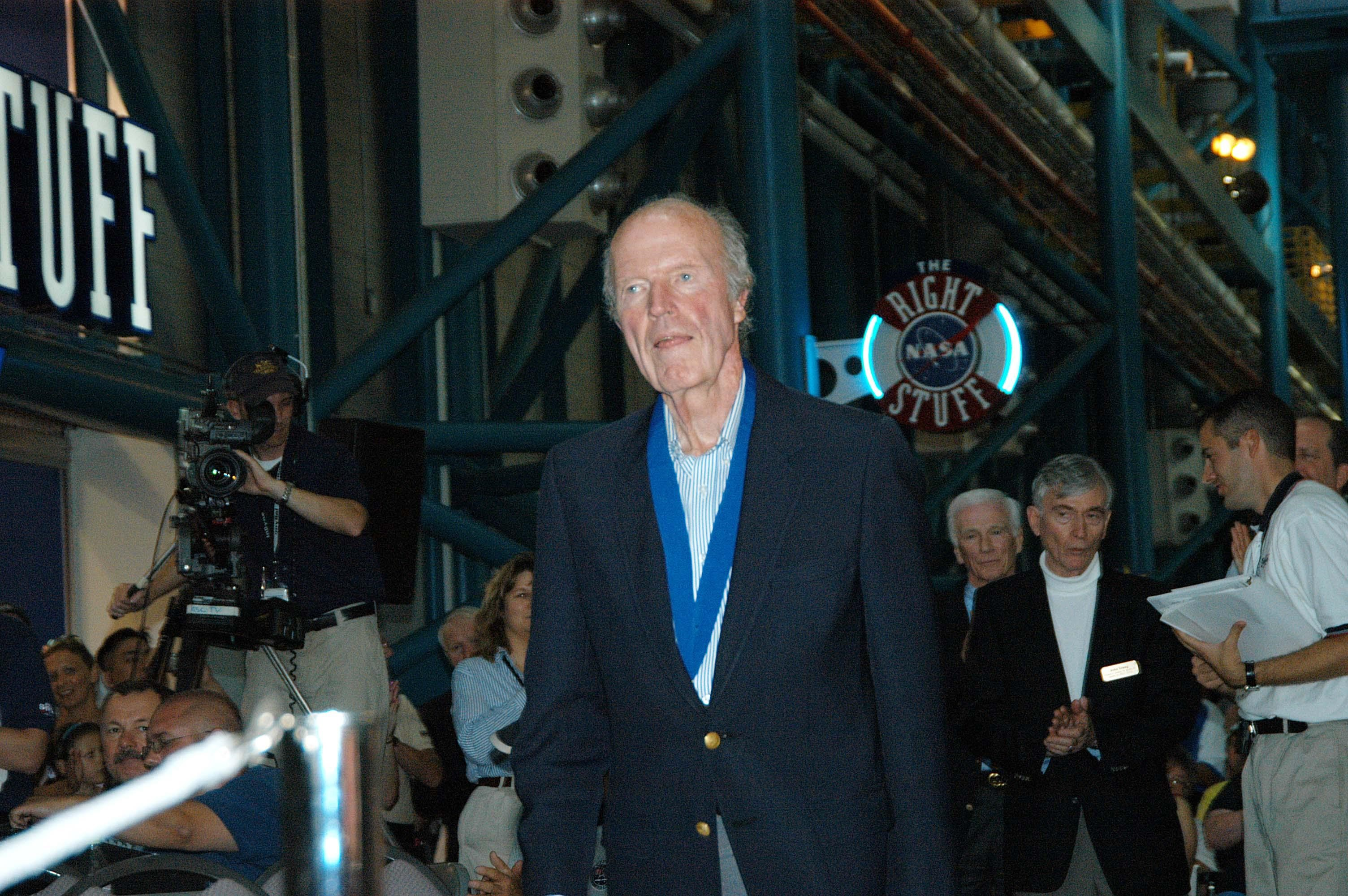 KENNEDY SPACE CENTER, FLA. -- Before the induction ceremony of five space program heroes into the U.S. Astronaut Hall of Fame, former astronaut Gordon Cooper is introduced as a previous inductee. One of America’s original Mercury Seven astronauts, Cooper flew the last and longest Project Mercury orbital mission and spent eight days in space aboard Gemini 5. The ceremony was held at the Apollo/Saturn V Center at KSC. New inductees are Richard O. Covey, commander of the Hubble Space Telescope repair mission; Norman E. Thagard, the first American to occupy Russia’s Mir space station; the late Francis R. "Dick" Scobee, commander of the ill-fated 1986 Challenger mission; Kathryn D. Sullivan, the first American woman to walk in space; and Frederick D. Gregory, the first African-American to command a space mission and the current NASA deputy administrator. The U.S. Astronaut Hall of Fame opened in 1990 to provide a place where space travelers could be remembered for their participation and accomplishments in the U.S. space program. The five inductees join 52 previously honored astronauts from the ranks of the Gemini, Apollo, Skylab, Apollo-Soyuz, and Space Shuttle programs.